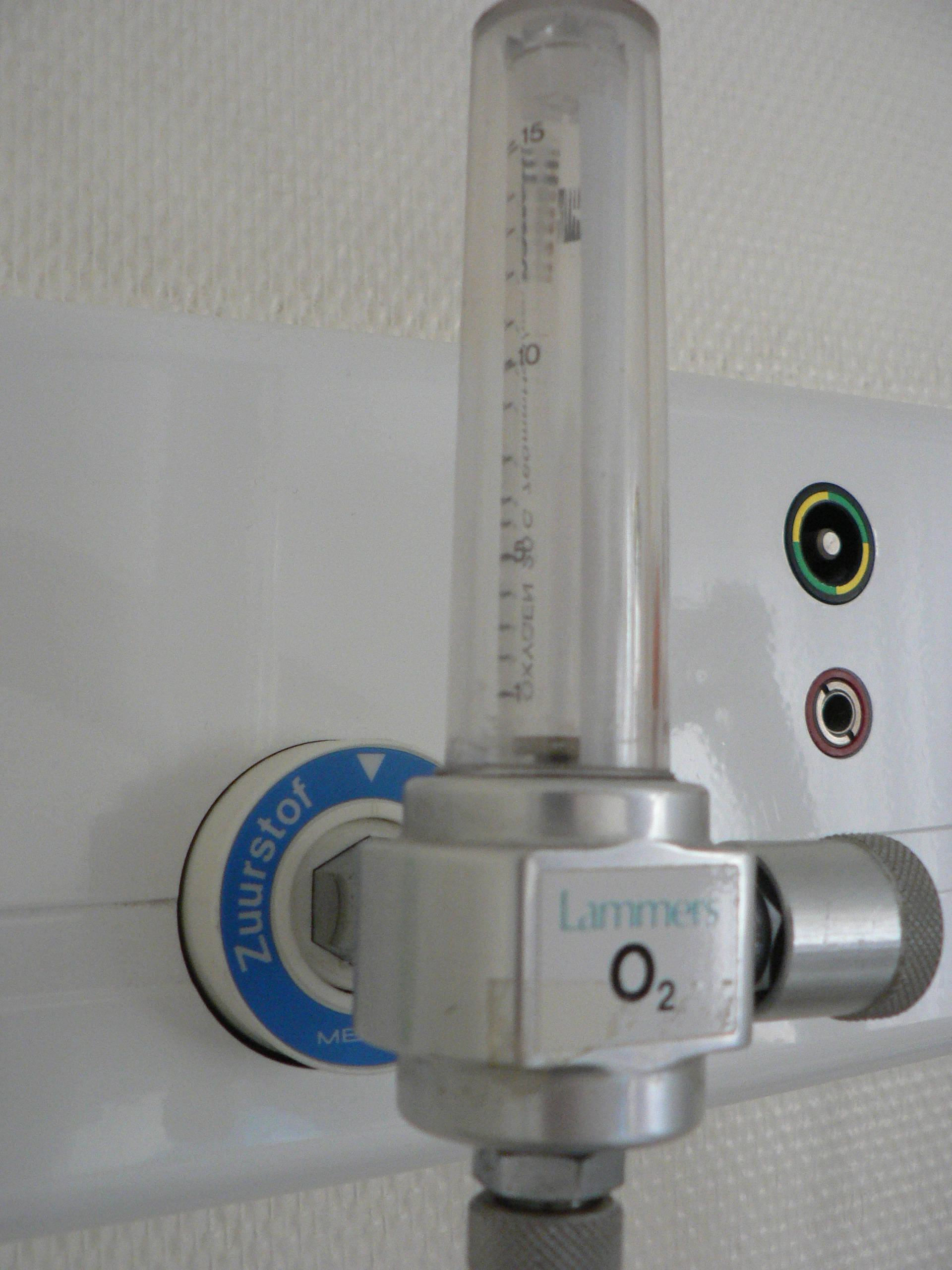 oxygen supply